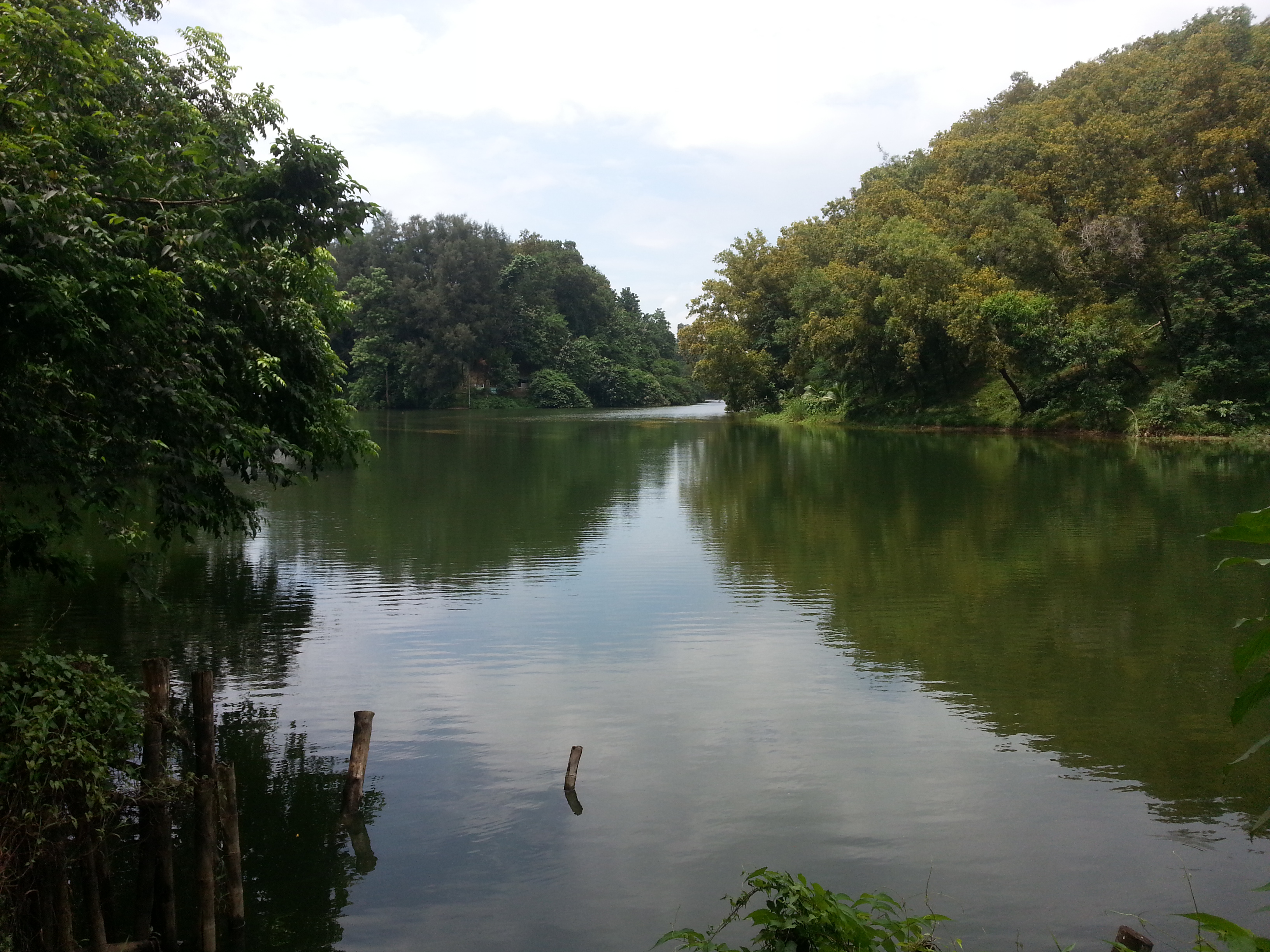 Foy's Lake is a man-made lake in Chittagong, Bangladesh. It was created in 1924 by constructing a dam across the stream that came down from the hills in the northern part of Chittagong. The purpose of creating an artificial lake was to provide water to the residence of railway colony. It was named after Mr Foy who was a Railway engineer and believed to materialized the project. Pahartali was basically a railway town with workshop, yard and shed. A good number of railway employees lives there. Presently, a carriage workshop, diesel workshop, loco shed, laboratory, stores, electric workshop, school (established in 1924) are located. The area belongs to Railway. However, an amusement park, managed by the Concord group, is located here.